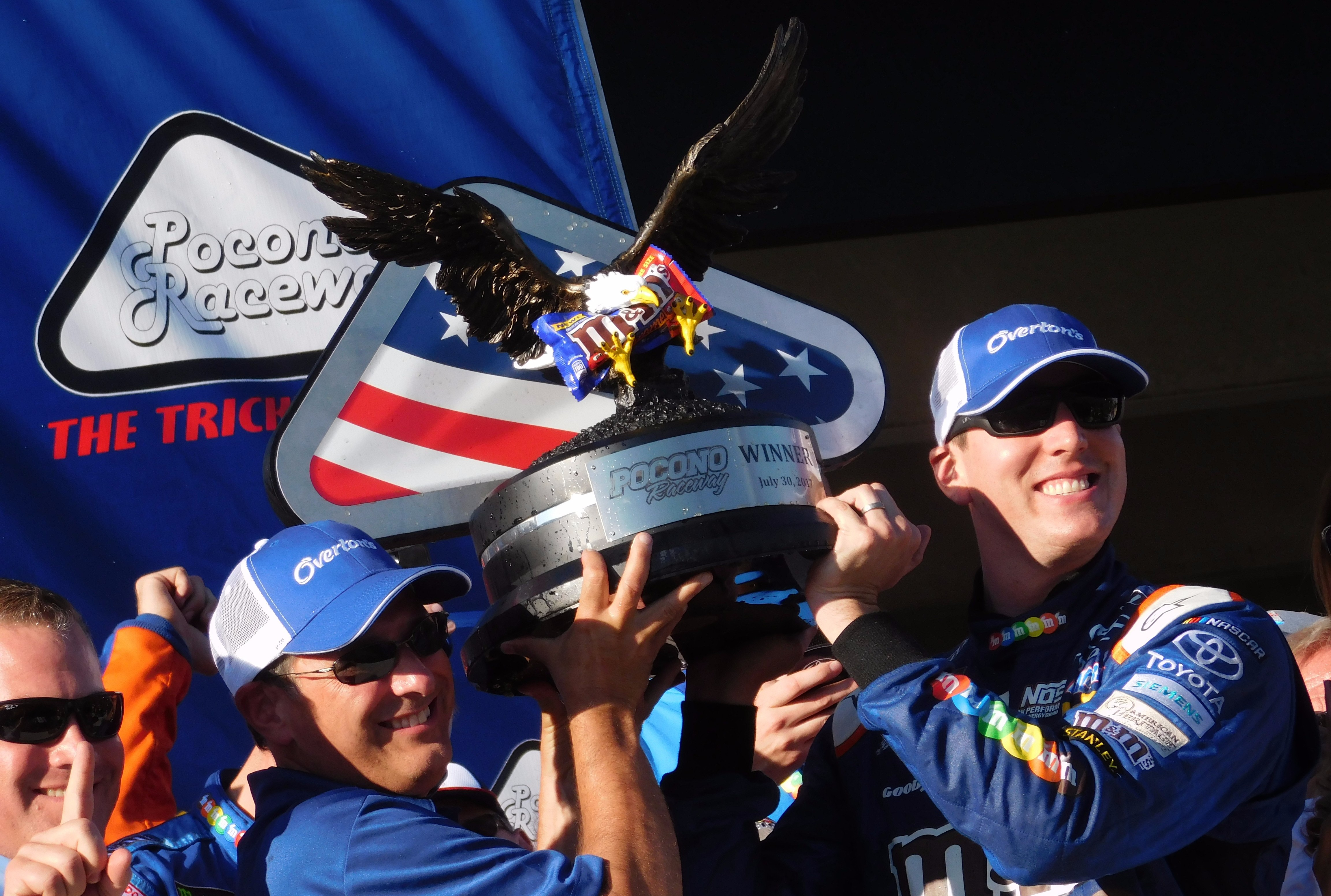 Kyle Busch poses in Victory Lane after winning the Overton's 400 at Pocono Raceway in 2017.